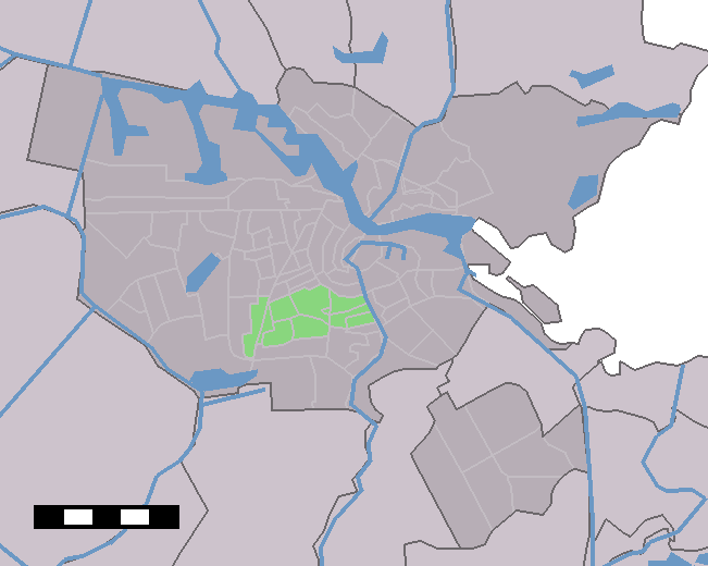 Location of neighbourhoods/districts in Amsterdam